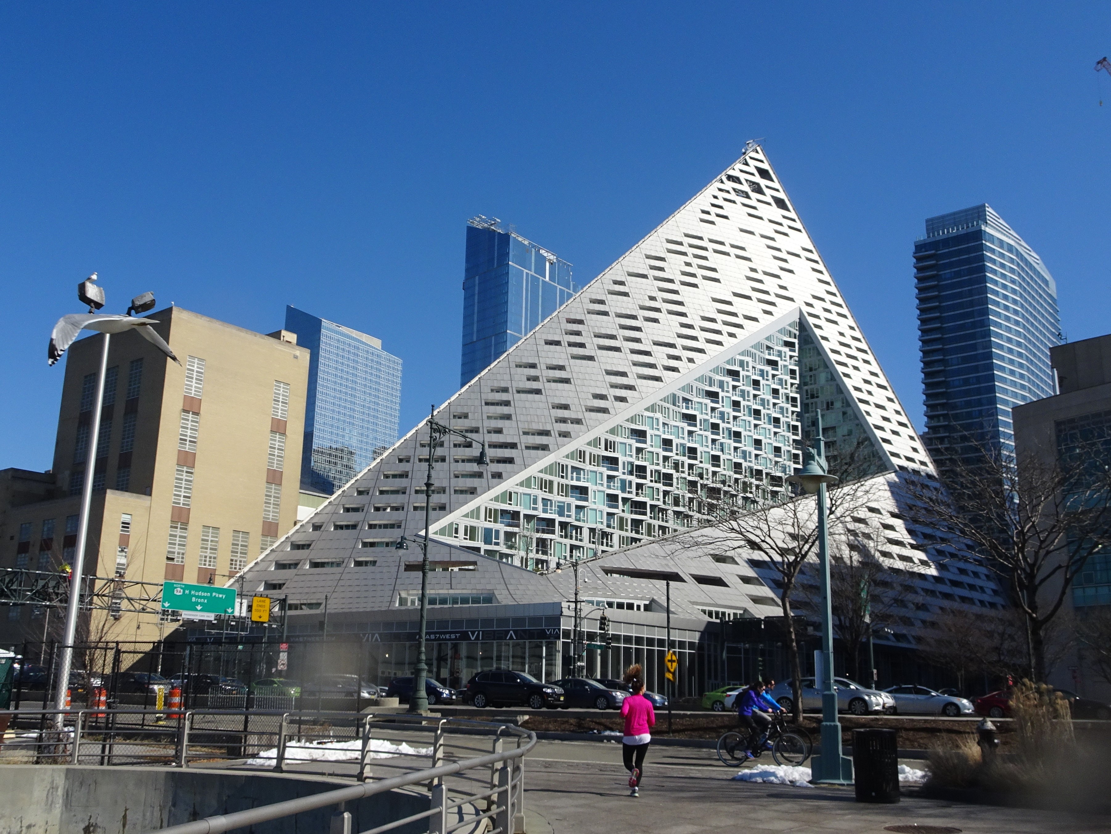 Looking northeast